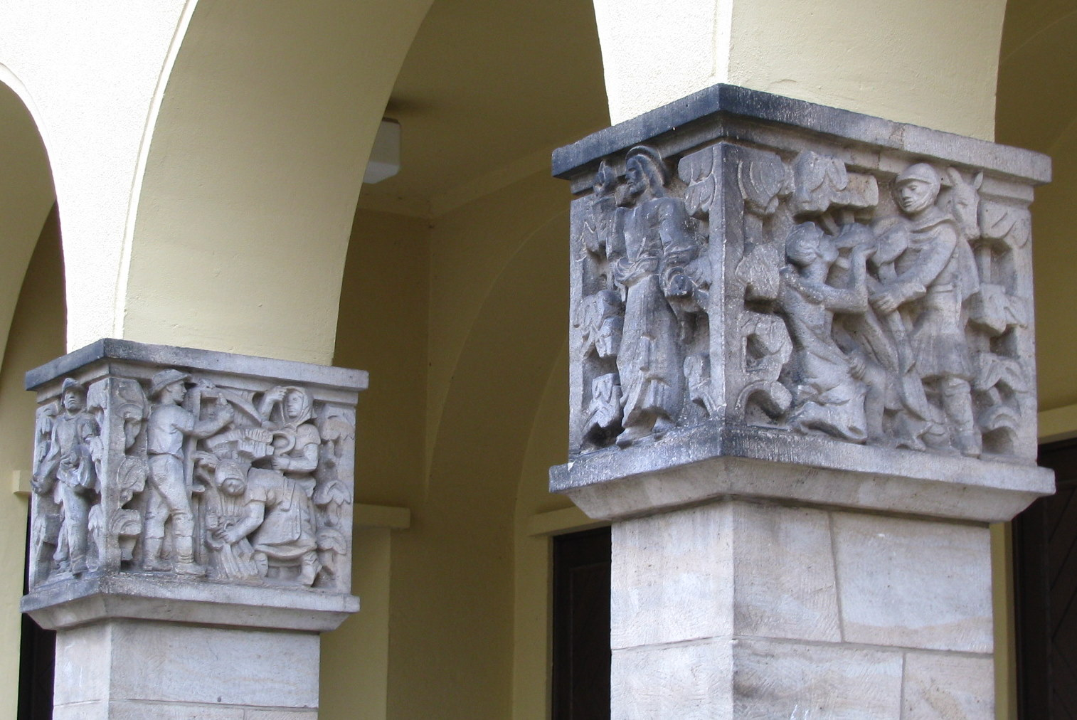 The Hoffnungskirche (Church of Hope) in Dresden-Löbtau